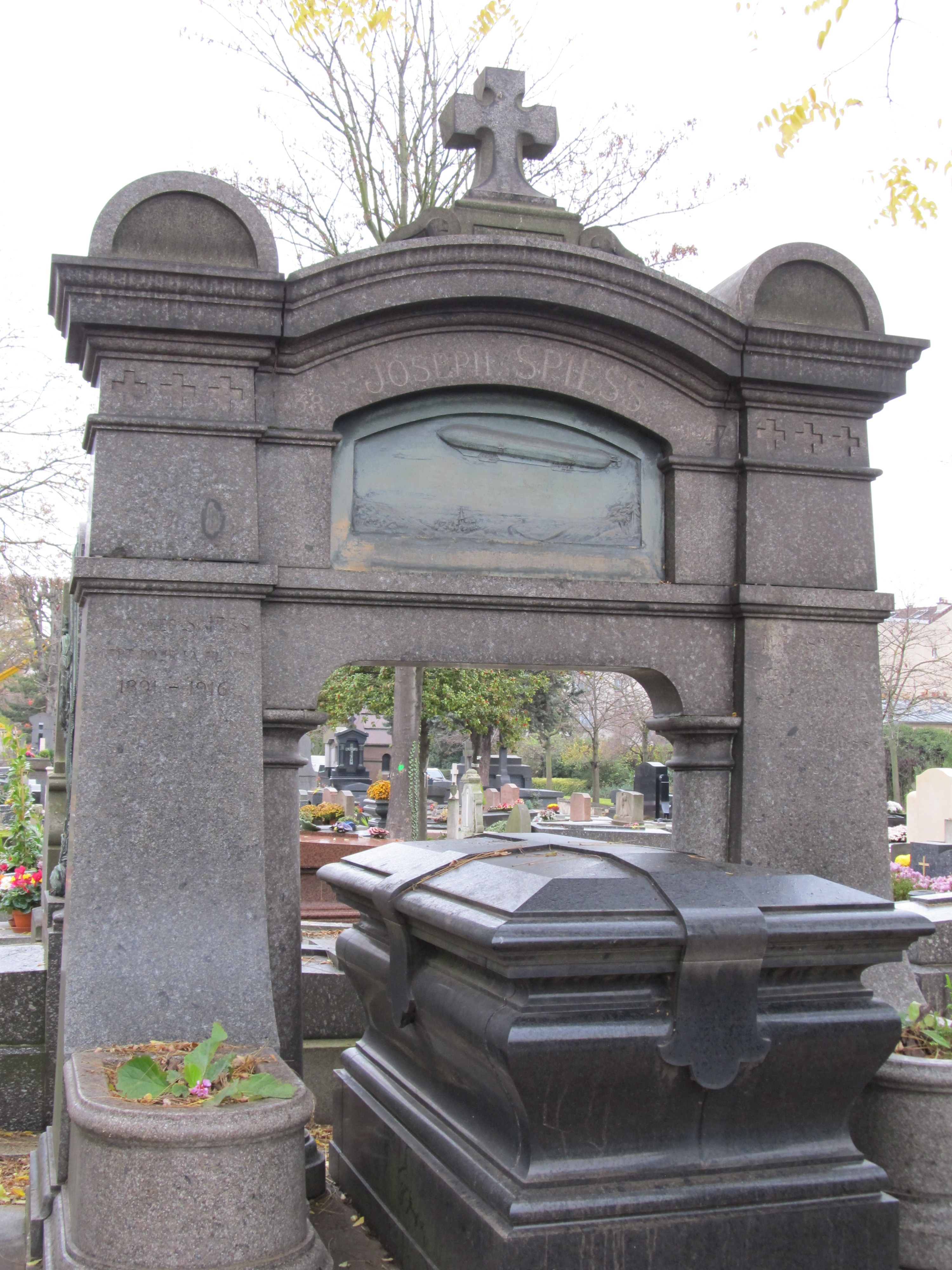 Joseph Spiess's tomb in Père Lachaise Cemetery, in Paris, France, near Oscar Wilde's tomb.